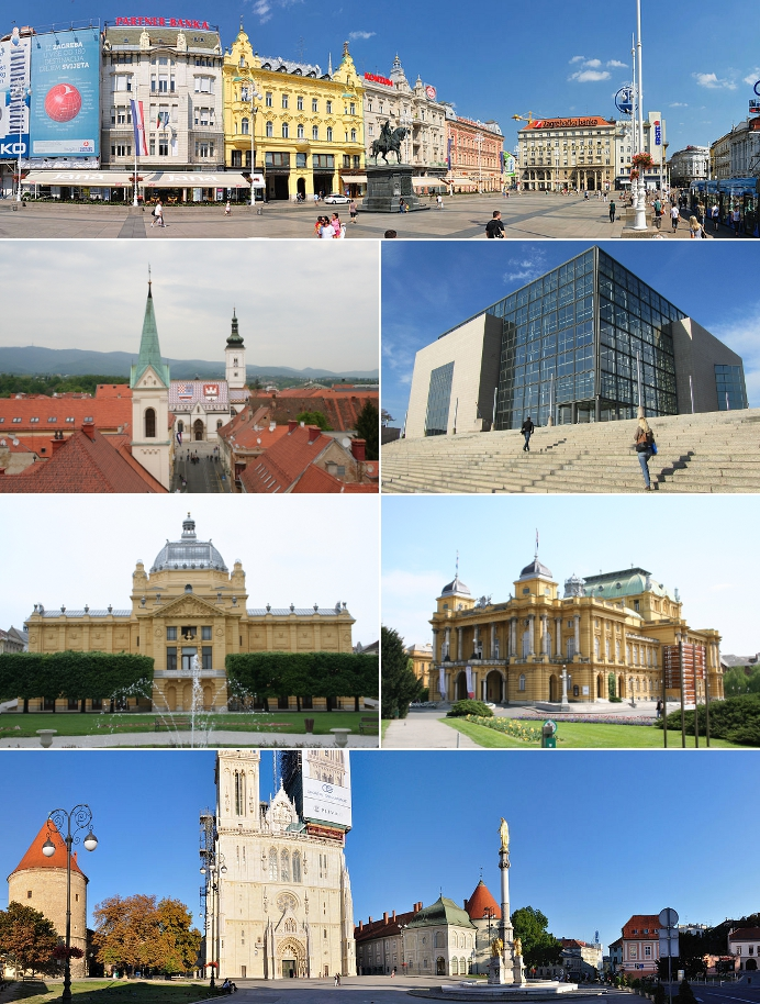 This is a montage of major Zagreb landmarks. The montage is made of my own pictures and images already available on Wikipedia Commons.